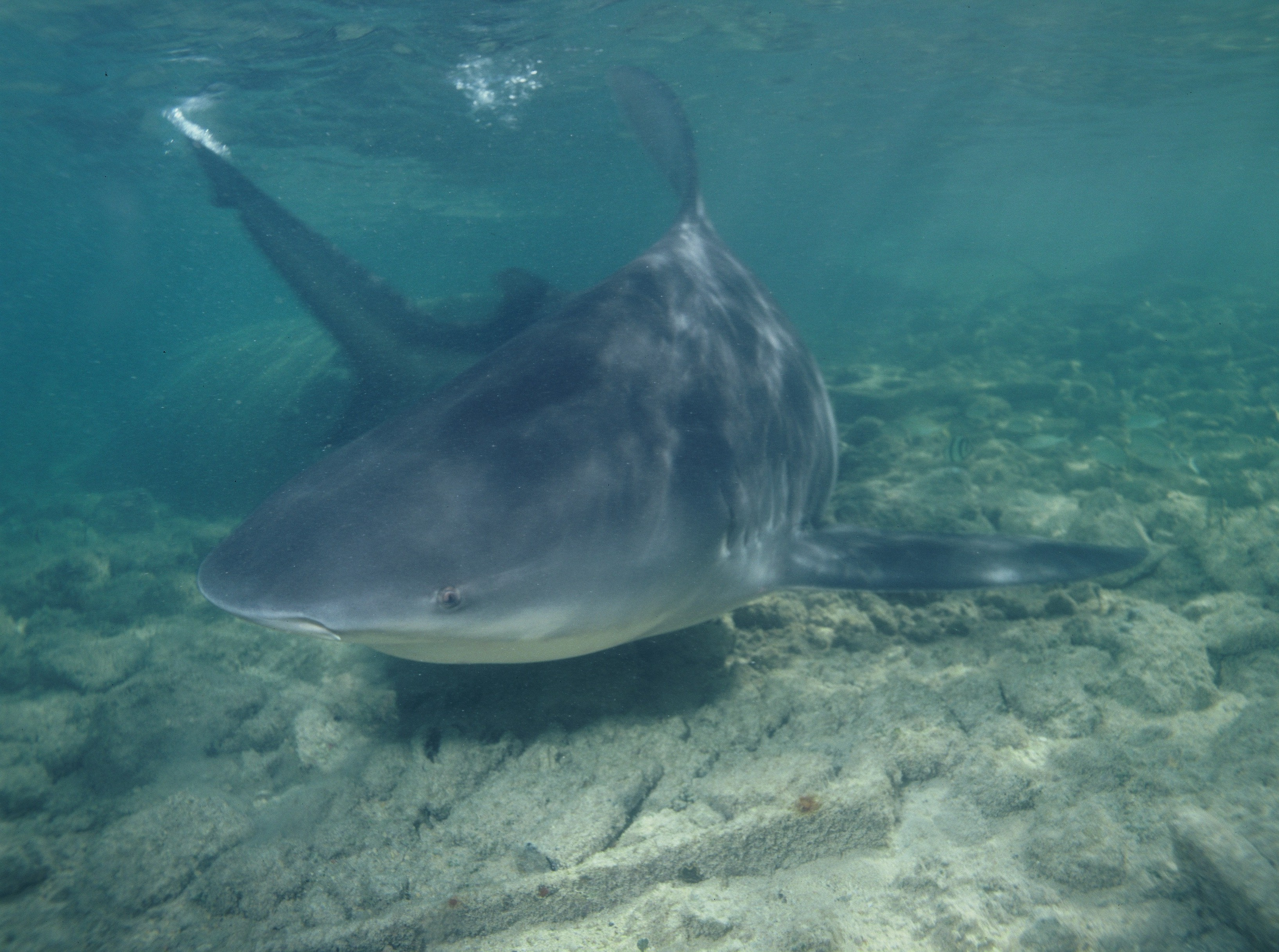 Bull shark, Carcharhinus leucas